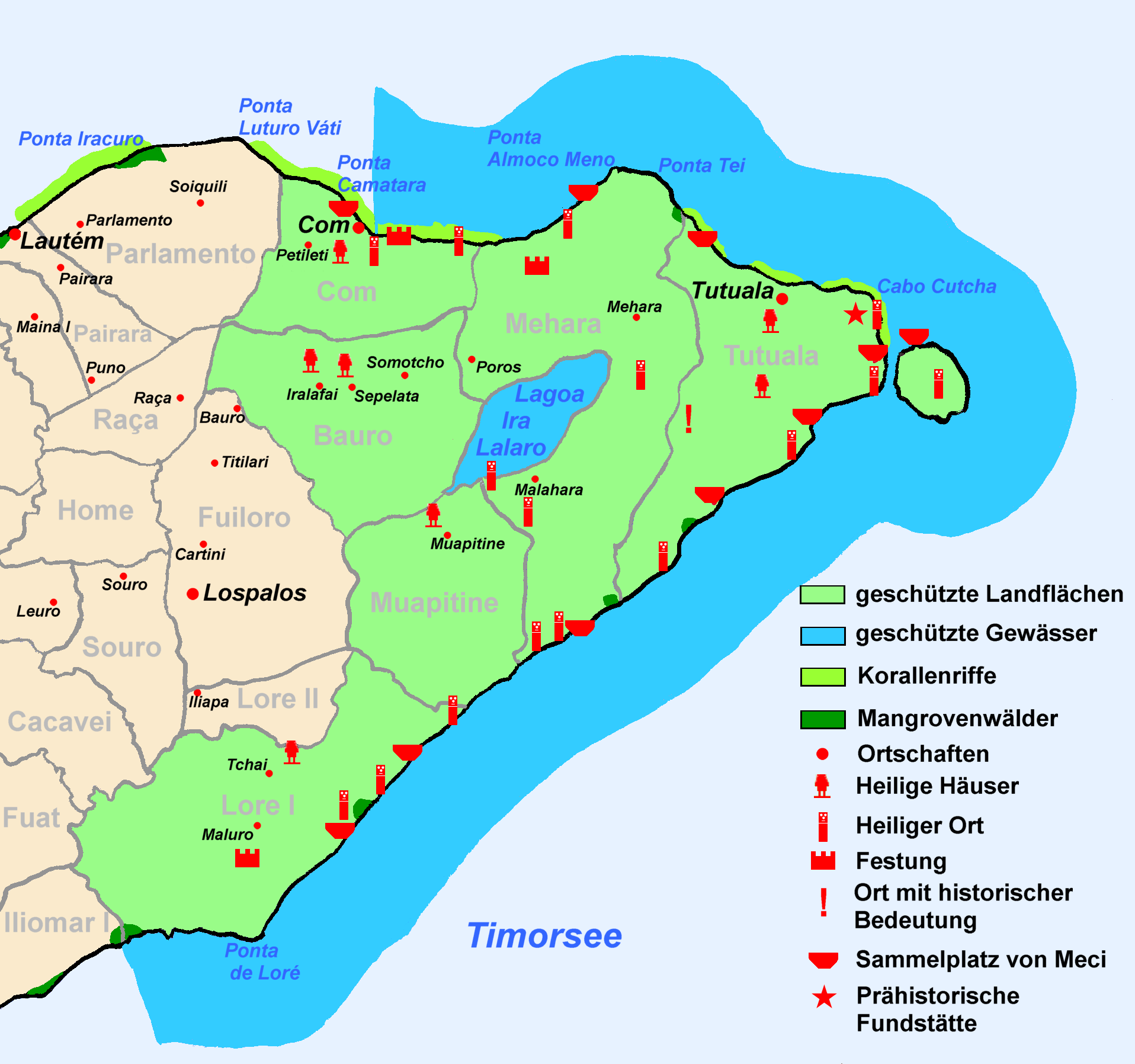 Map of Nino Konis National Park, East Timor